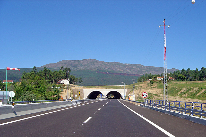 A27 motorway, Ponte de Lima - Viana do Castelo, Portugal.